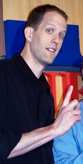 I took this photo of Pete Docter while he was in San Diego promoting his latest Pixar movie "Up."